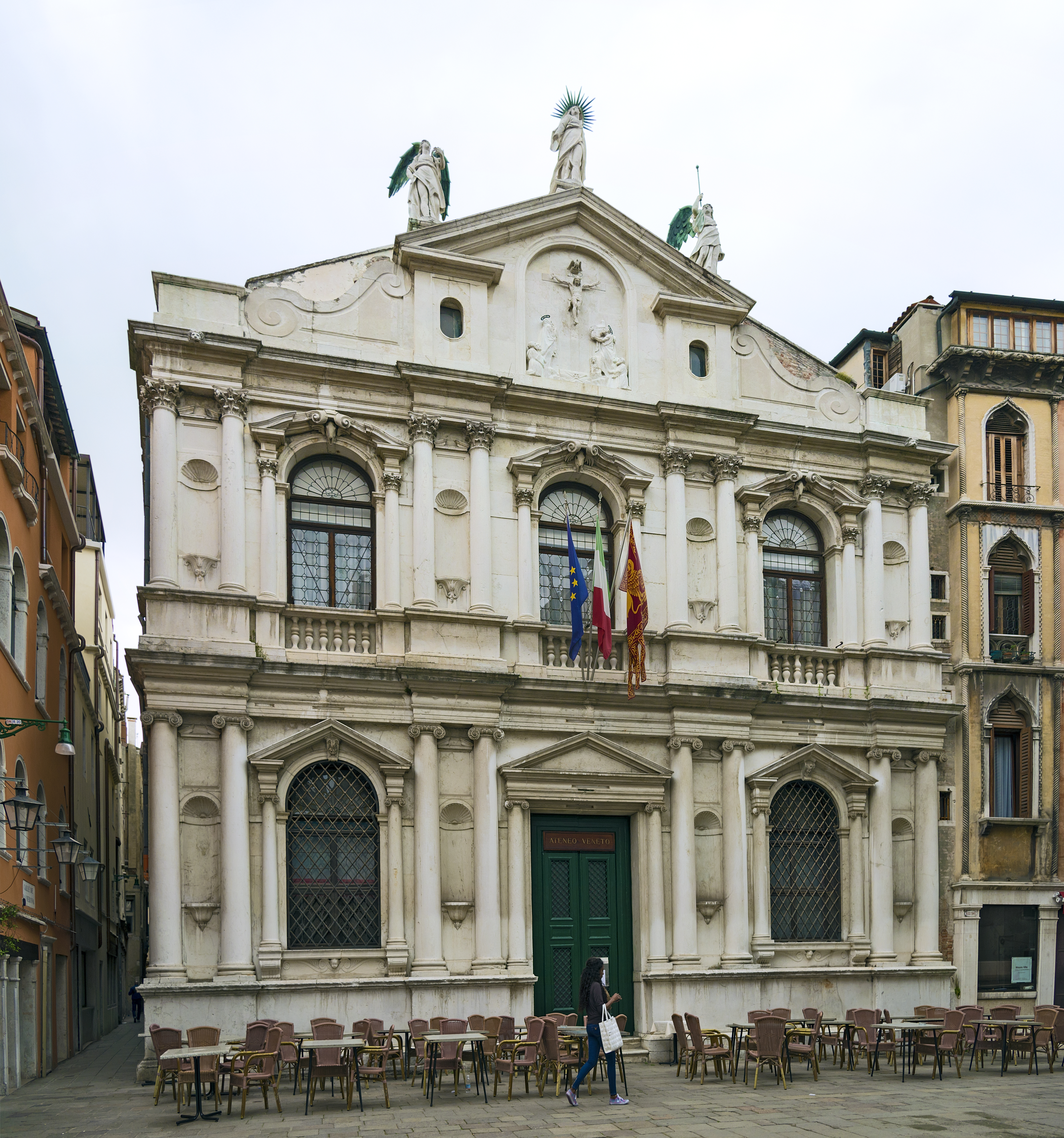 Scola di San Fantin in Venice. Facade on Campo San Fantin